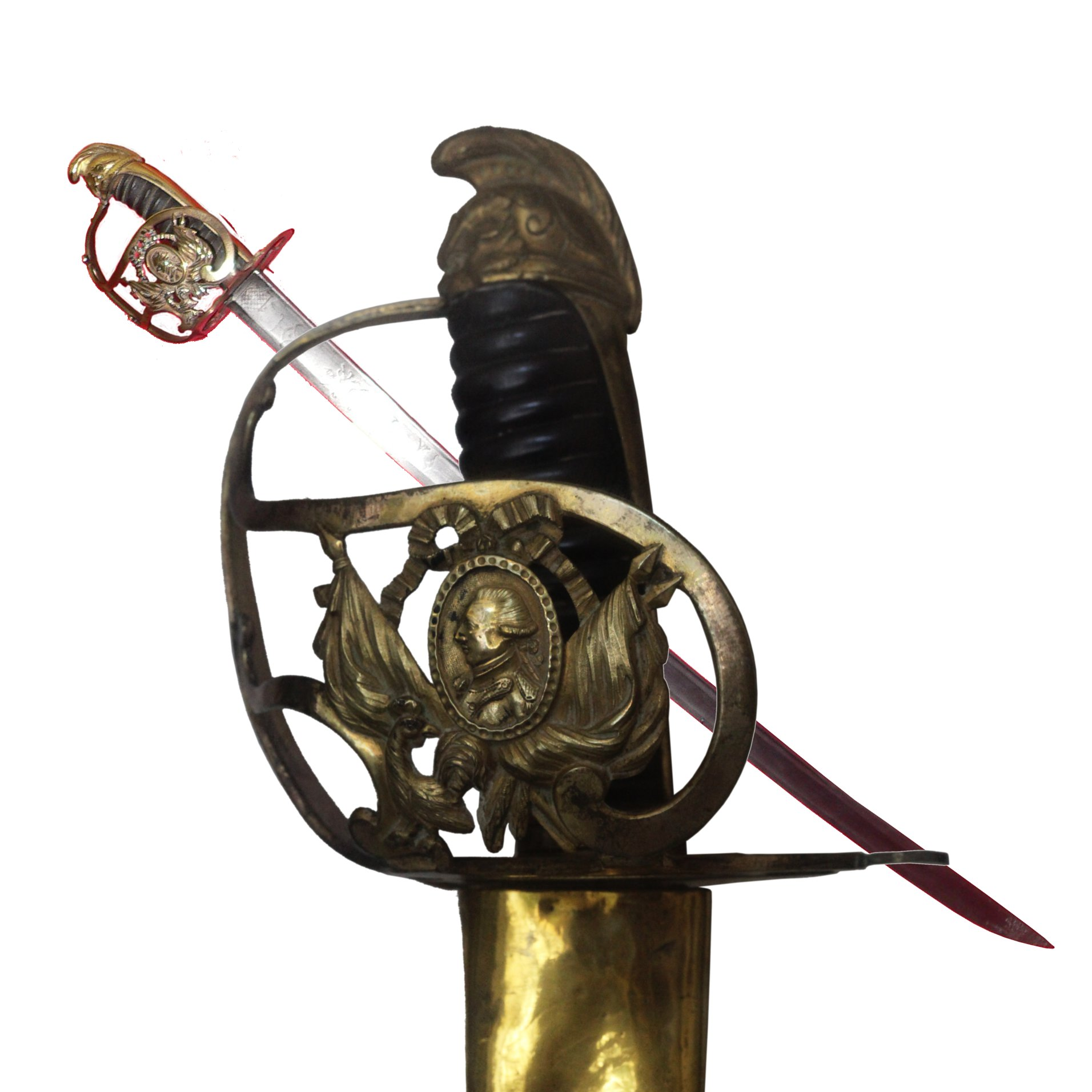 Officer Petit Montmorency à coquille of the National Guard, with portrait of Lafayette. Between 1789 and 1792.